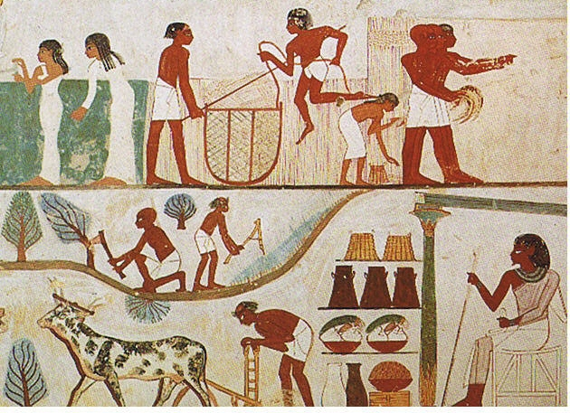 Agricultural scene from the tomb of Nakht, 18th Dynasty Thebes